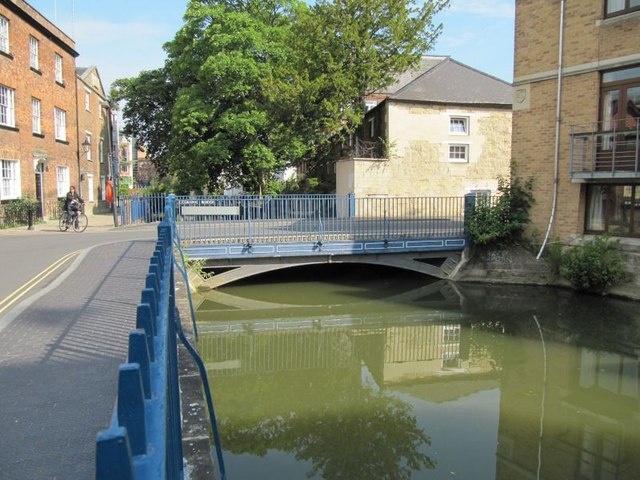 Quaking Bridge over Castle Mill Stream, Oxford, at the junction of St Thomas' Street (left), Tidmarsh Lane (right) and Paradise Street (left foreground)